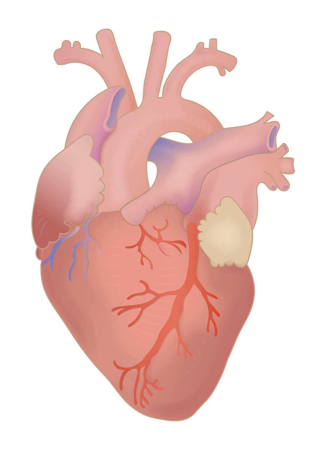 An illustration of the human heart.